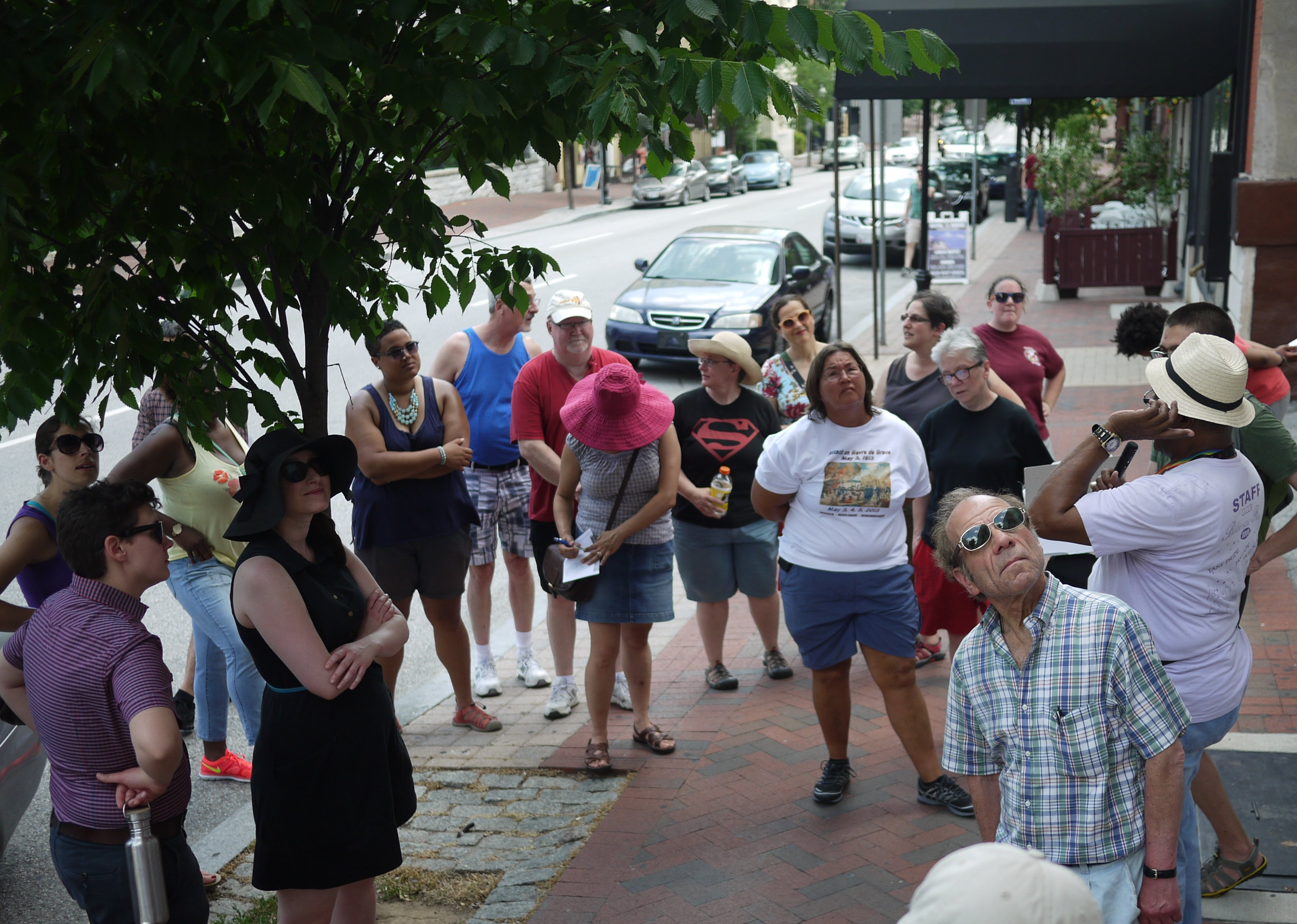 Photograph by Nicole Stanovsky, 2015 May 31.